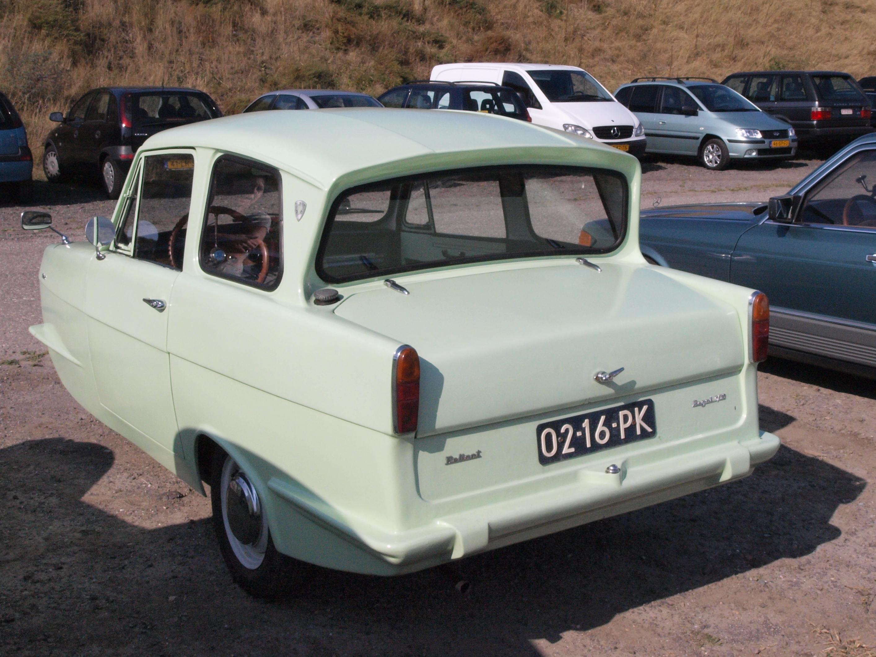 Photographed at the Nationaal Oldtimer Festival Zandvoort 2009, The Netherlands. OLYMPUS DIGITAL CAMERA